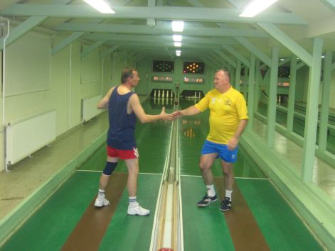 Bowling players after the match